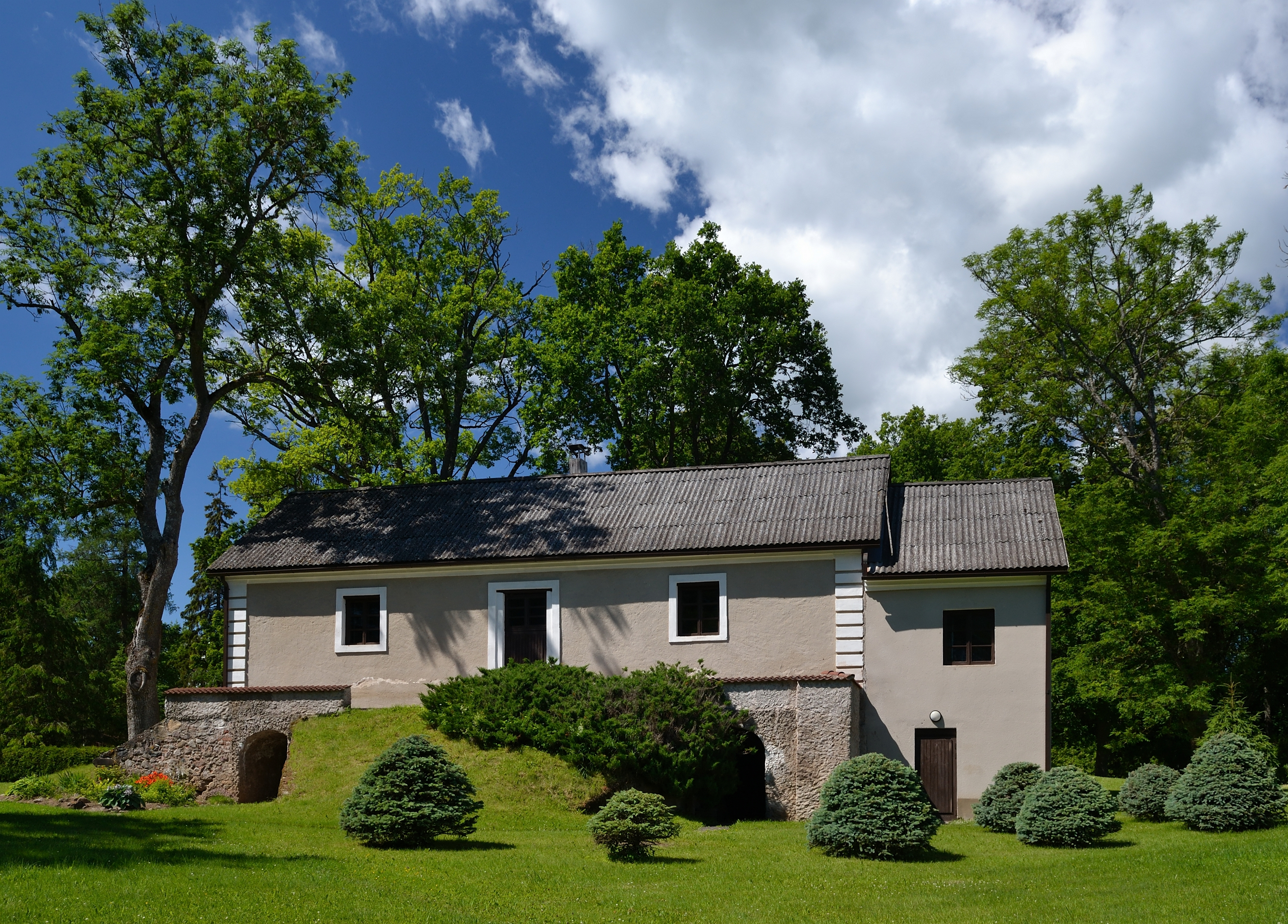 Aakre manor granary-icecellar